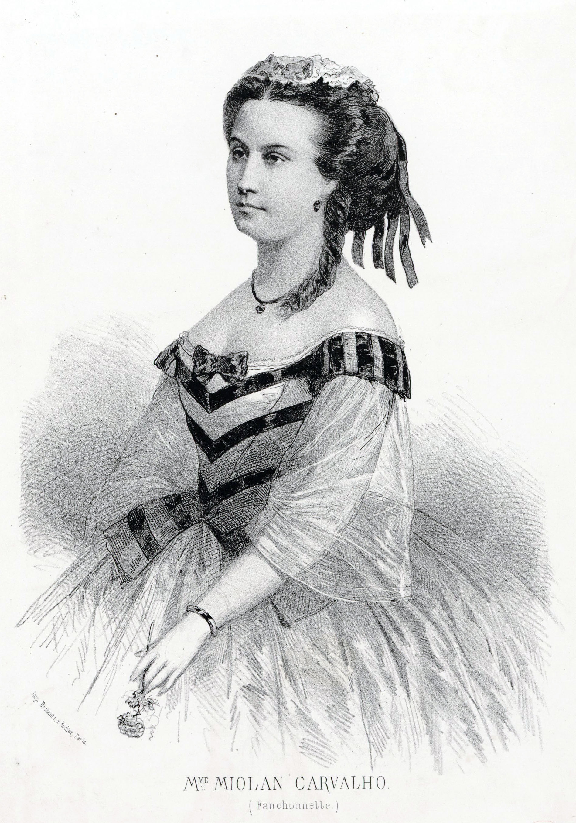 Caroline Carvalho in the title role of Louis Clapisson's opera La fanchonette, a part which she created in the premiere at the Théâtre Lyrique in Paris on 1 March 1856